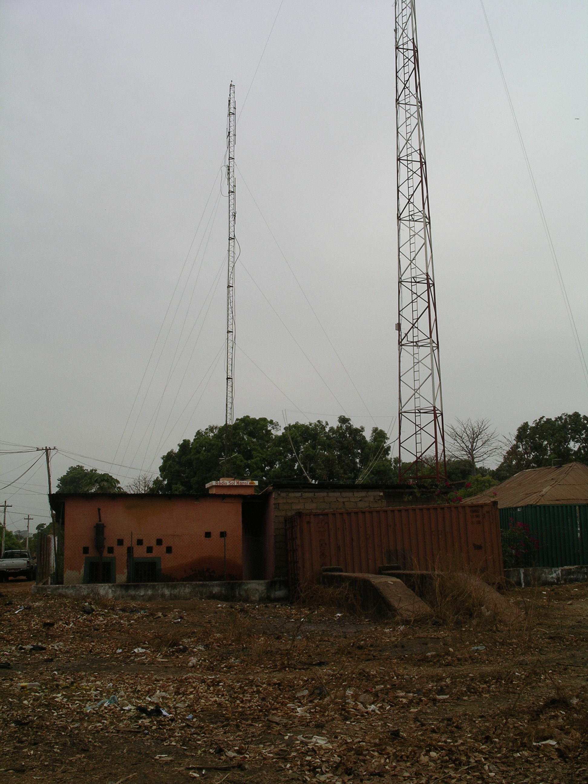 Mansoa Station